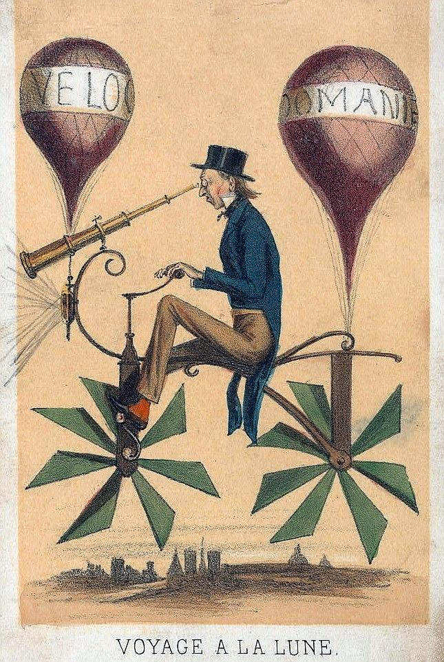 "Voyage à la lune" ("Journey to the moon"). French caricature depicting a man riding on a bicycle-like flying machine while looking through a telescope attached to the front. Attached at front and rear are two propeller-like wheels and two balloons. The captions on the balloons spell the word "Vélocipédomanie" ("Velocipedomania").